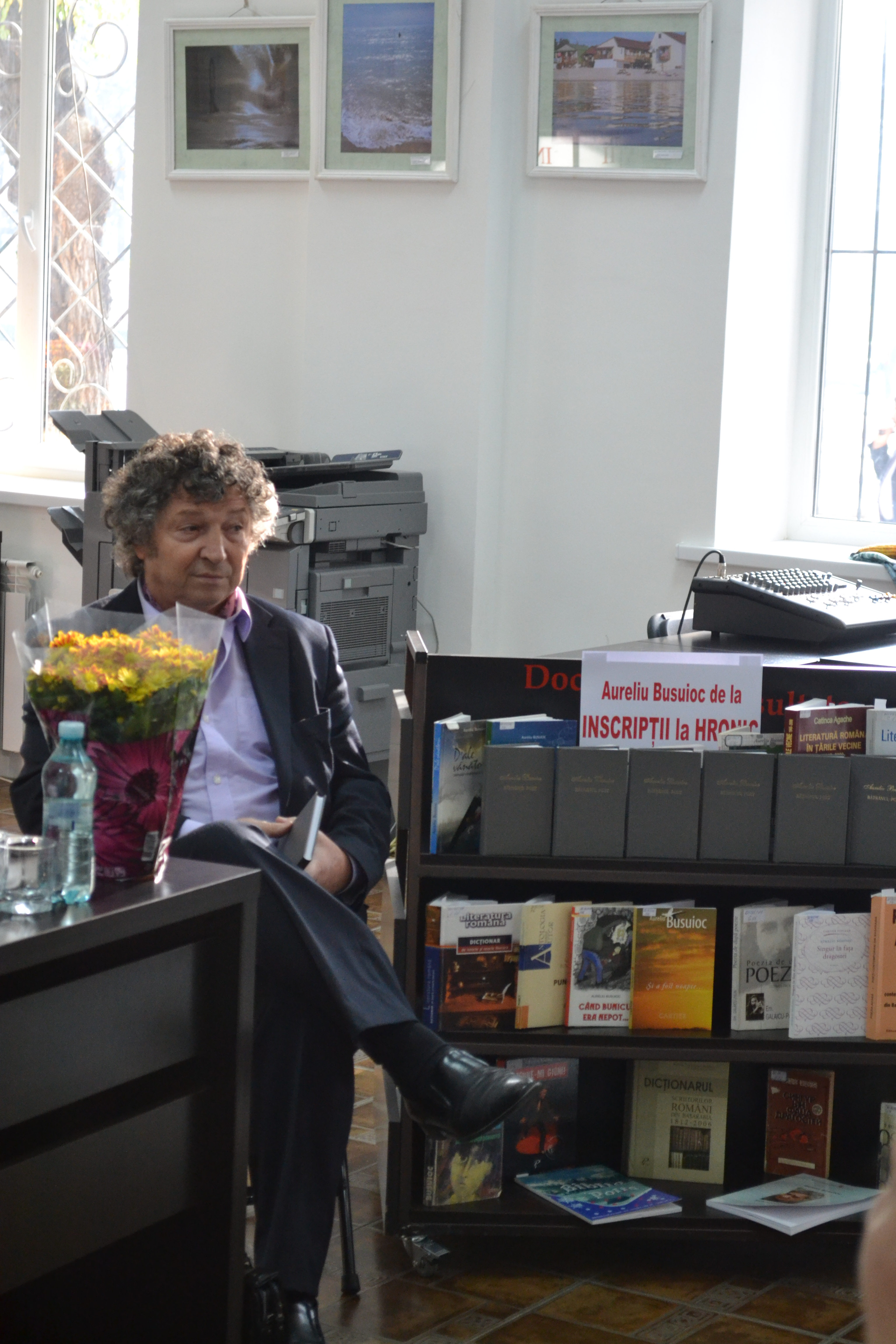 Iulian Filip